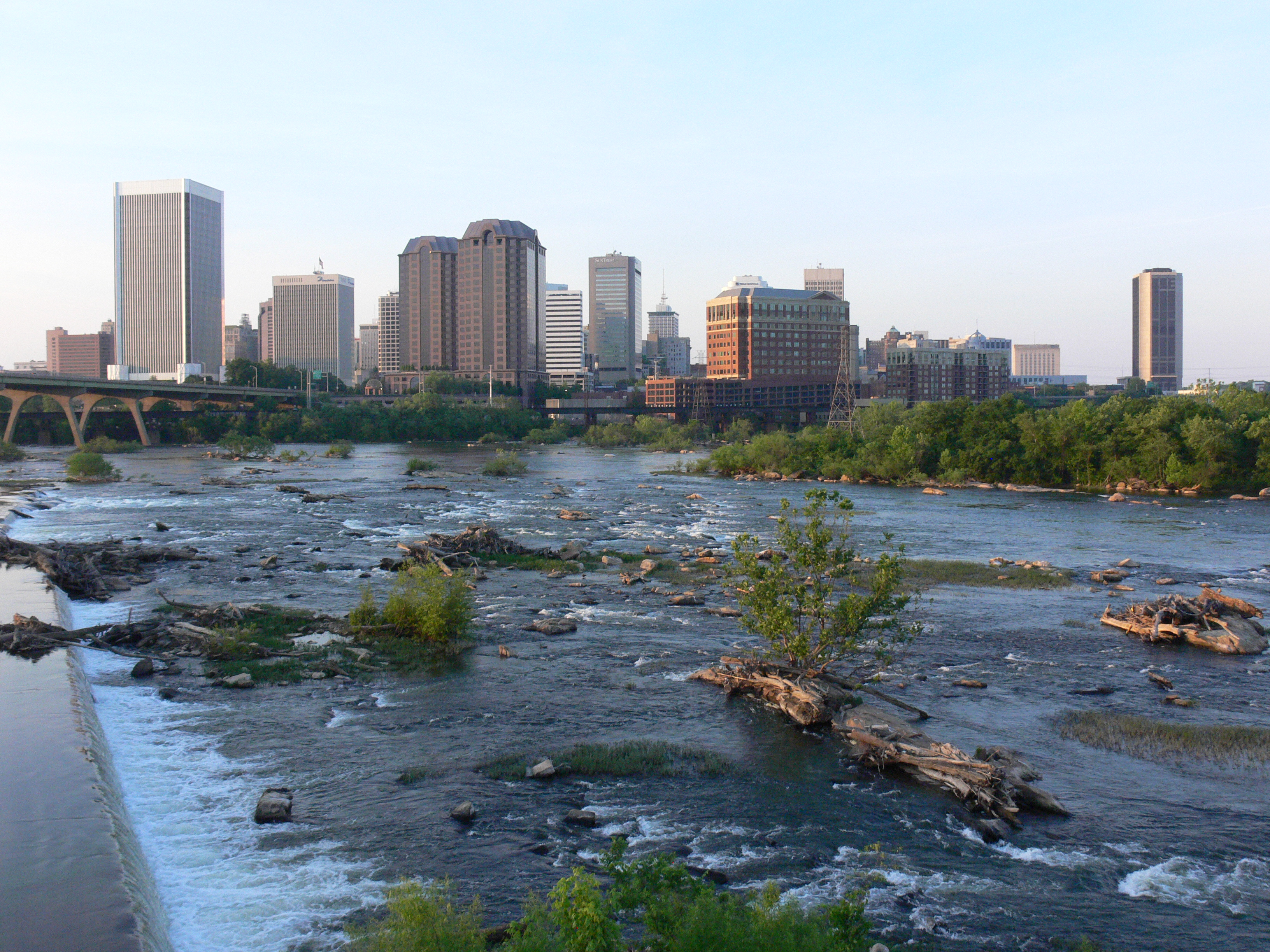 View of Downtown Richmond over the falls of the James, taken from the Manchester Floodwall.